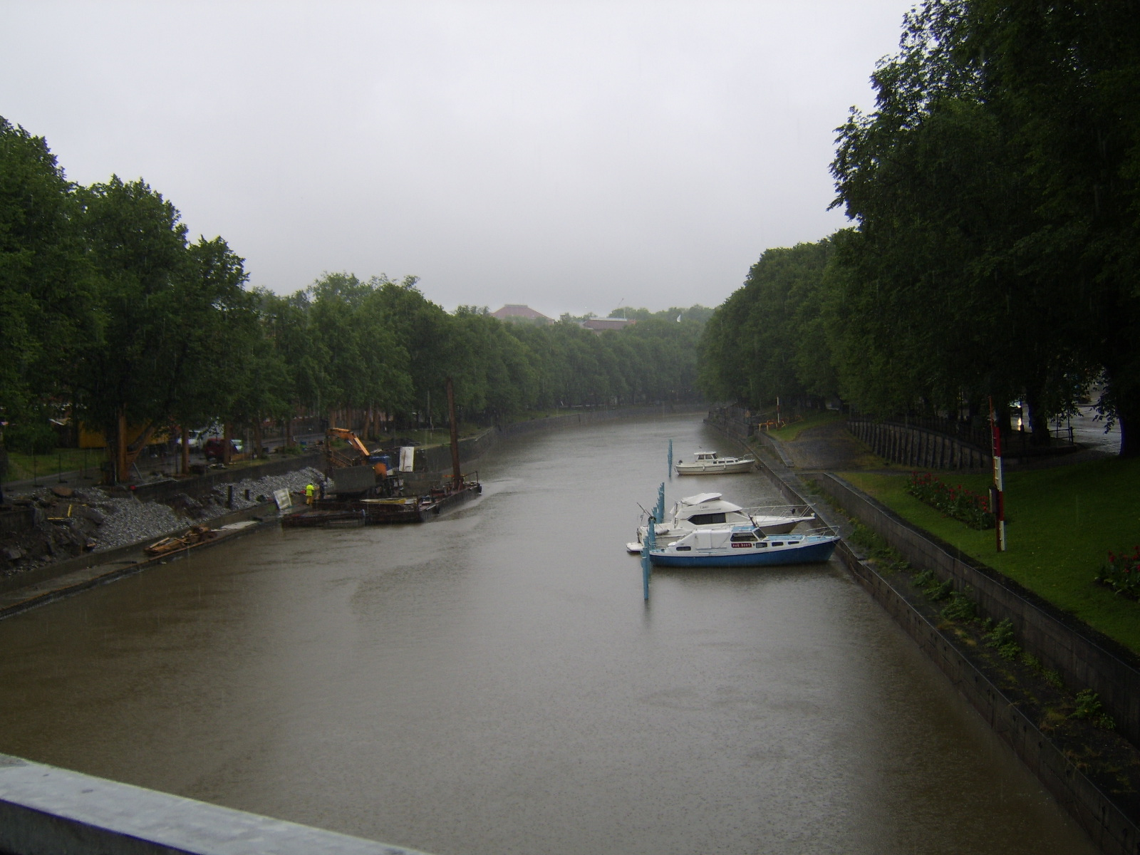 Aurajoki, the river in the city of Turku, Finland.